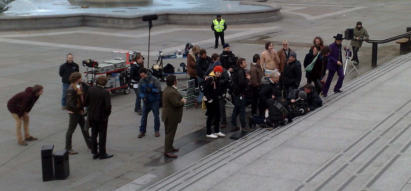 The Boat That Rocked filming